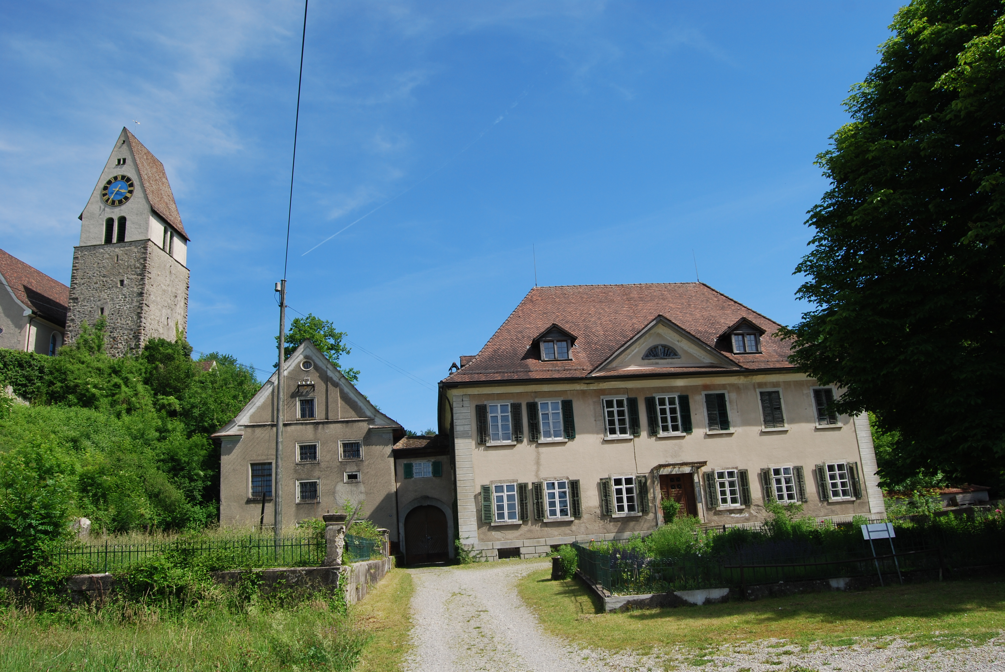 Tobel Commandry of the Order of Saint John, municipality Tobel-Tägerschen, canton of Thurgovia, Switzerland